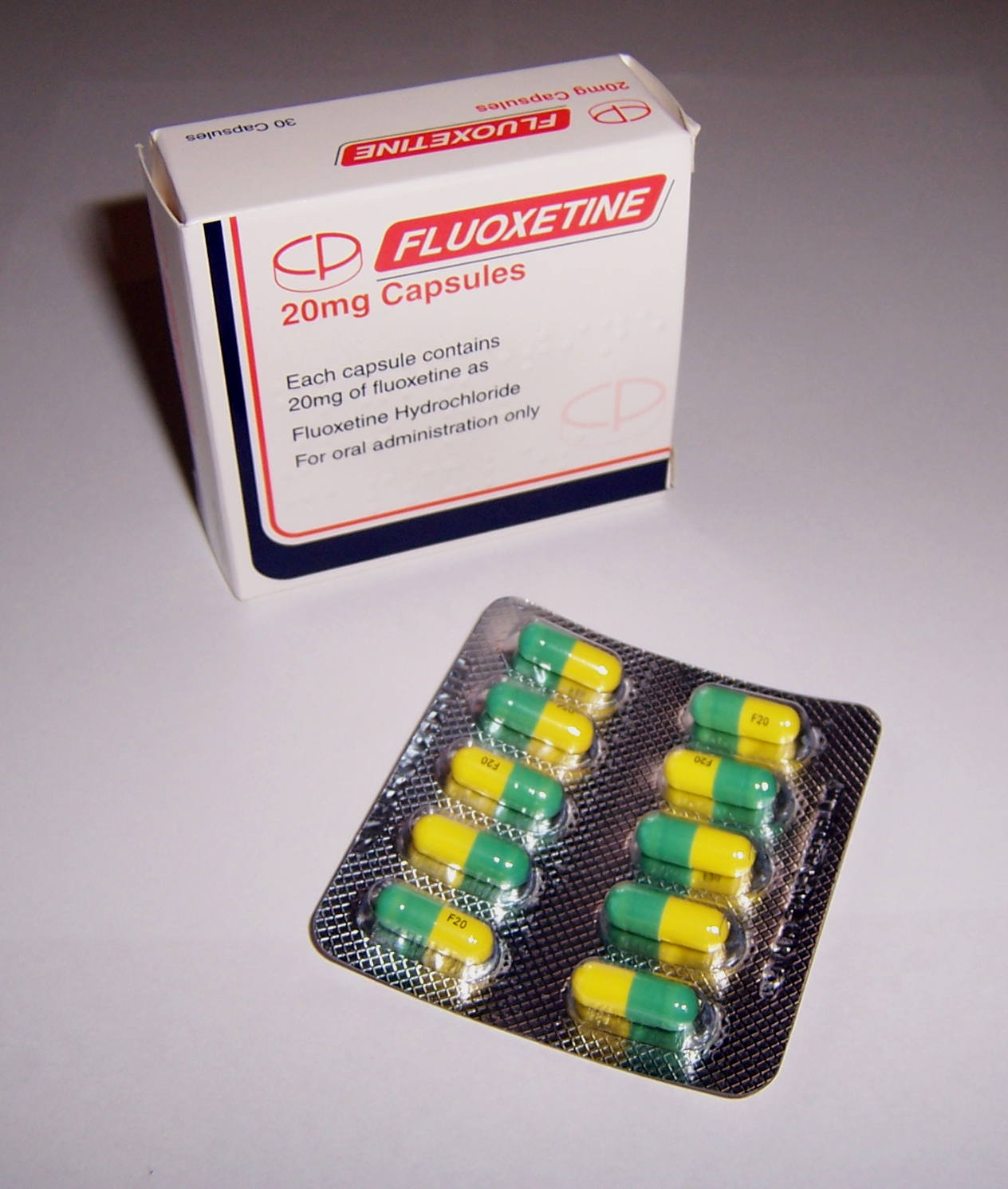 Fluoxetine, 20mg with packet.